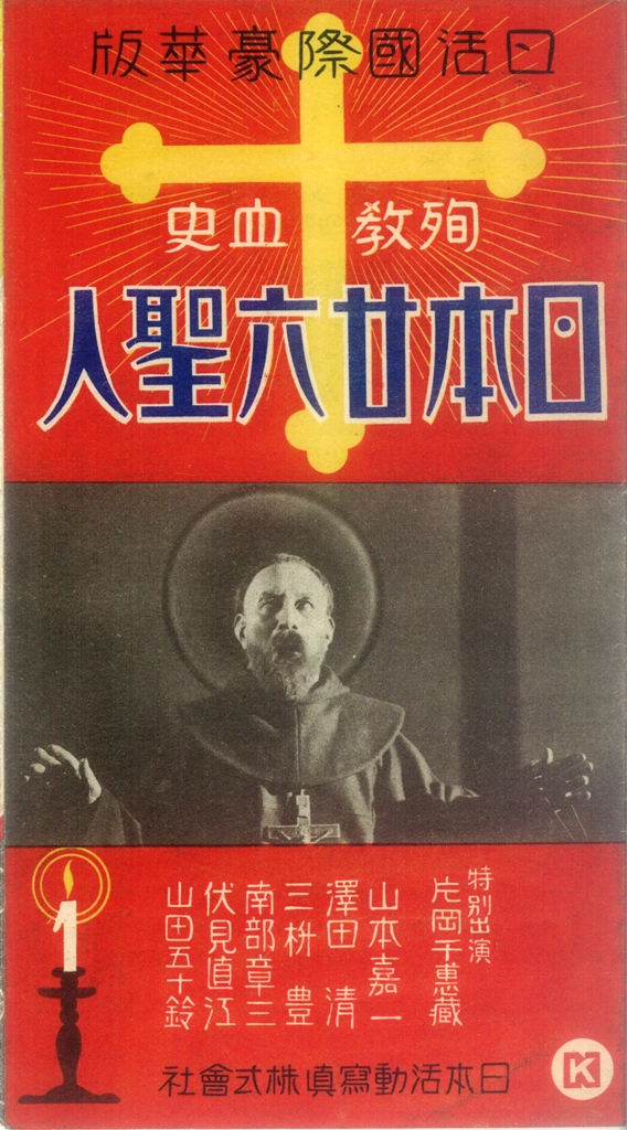 "Martyrdomian blood Japan 26 saints" Envelope with 4 picture postcards.